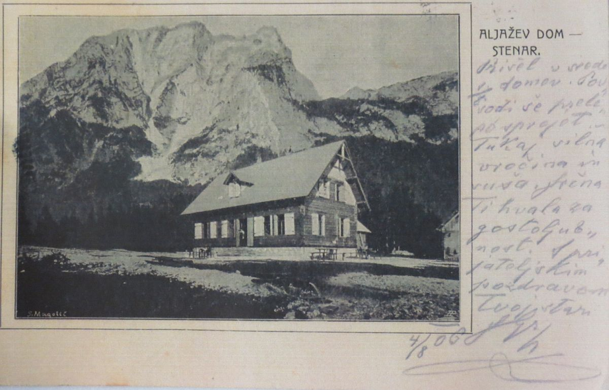 Postcard of Aljažev dom, written by Simon Gregorčič to Ivan Vrhovnik.